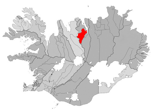 Based on Municipalities of Iceland.png.